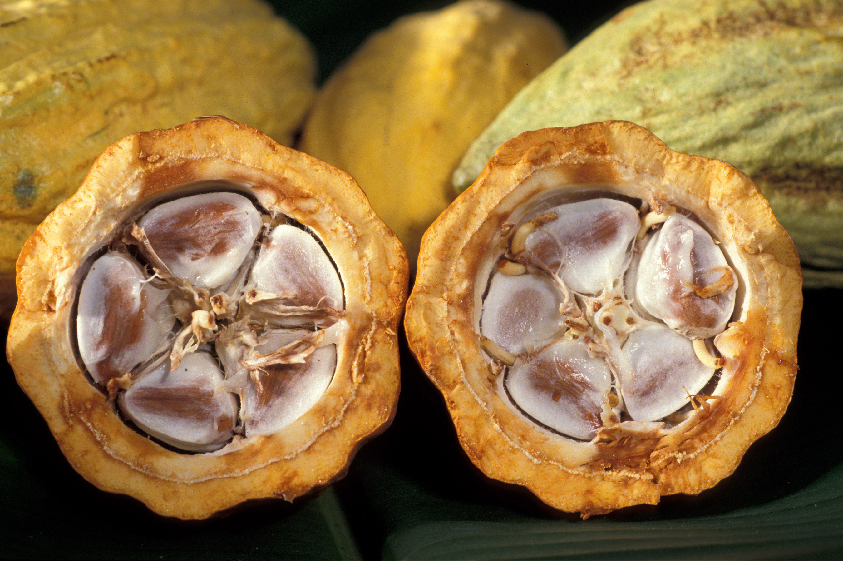 Cocoa beans in a cocoa pod.